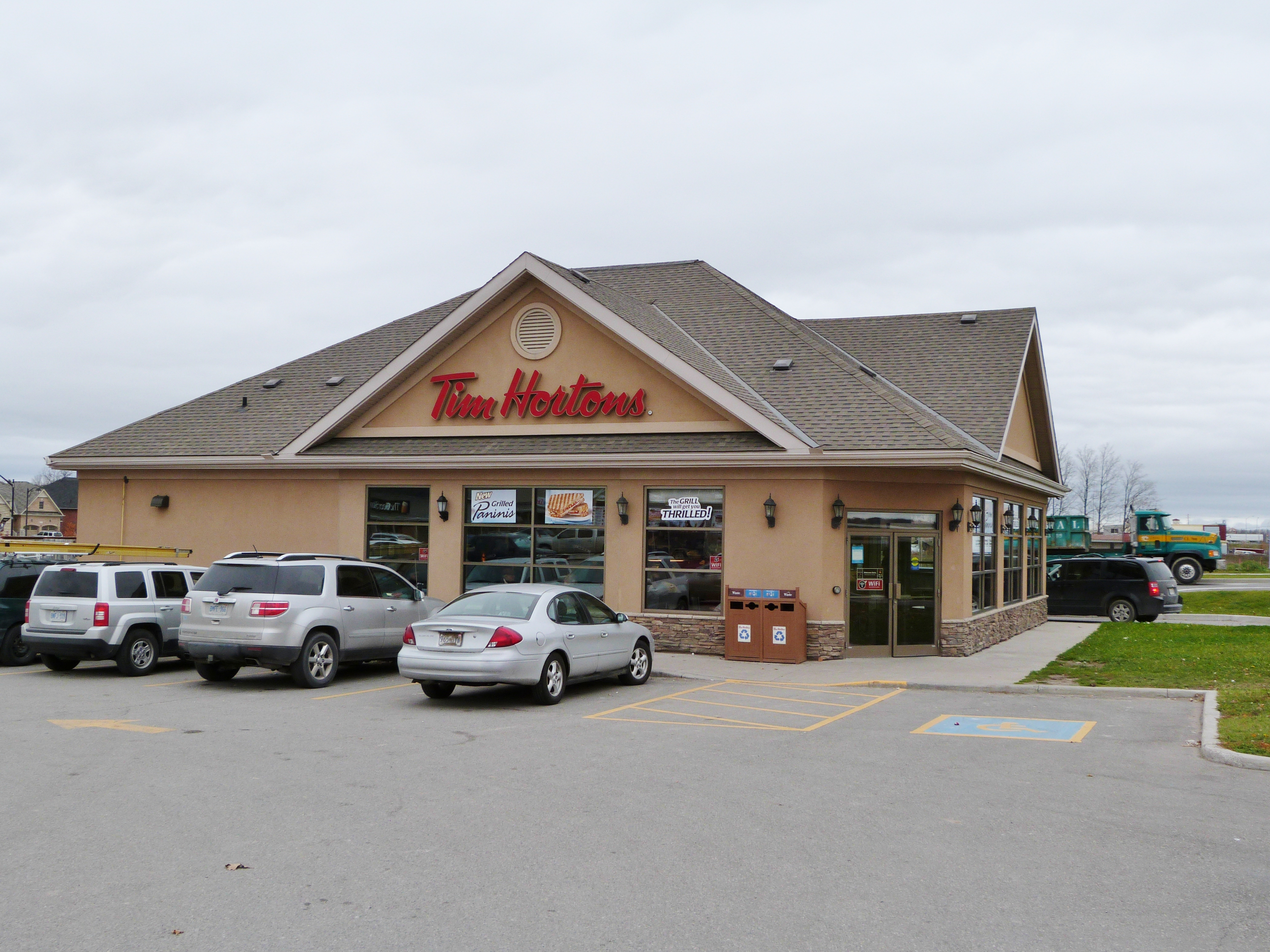 At the corner of Highway 27 next to the old feed elevator in Schomberg.